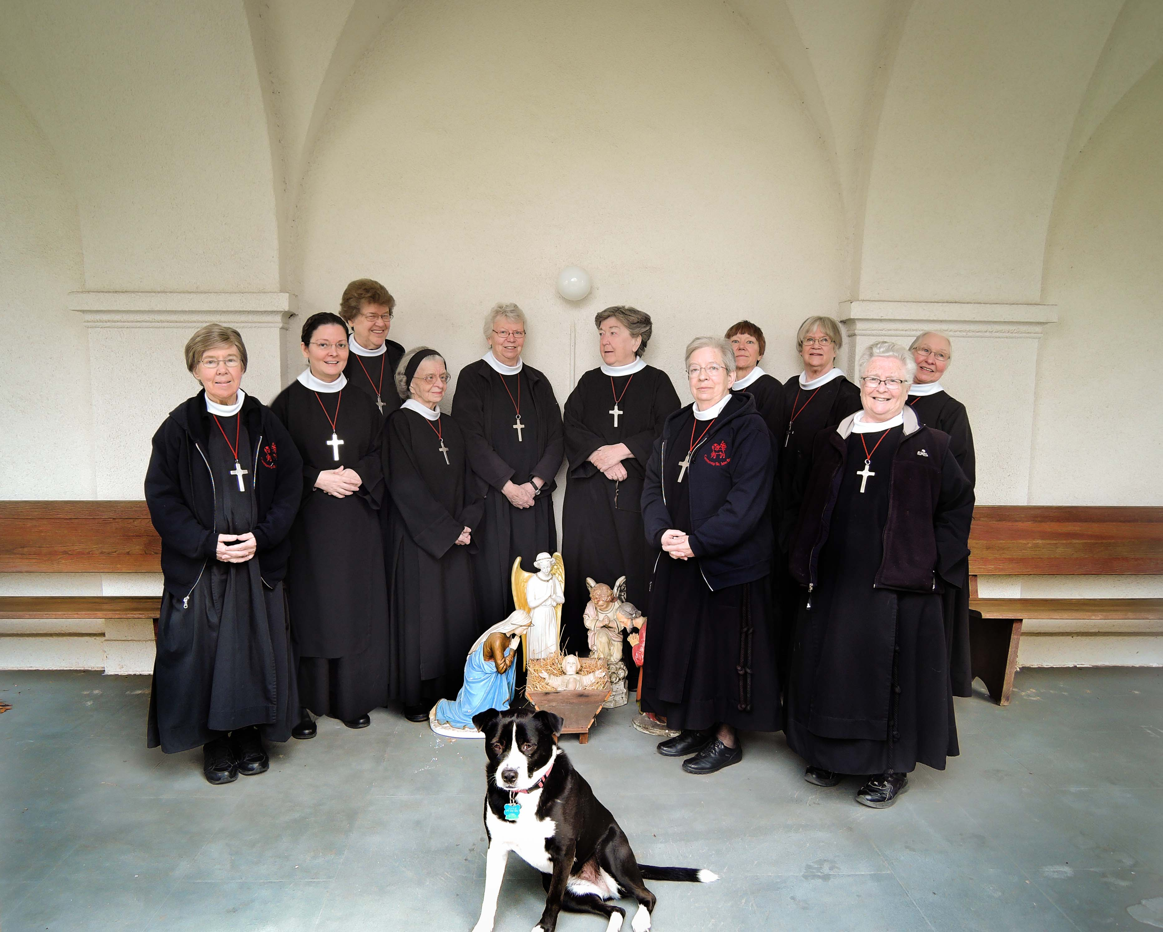 Sisters of the Community of St. John Baptist in Mendham, NJ. The CSJB USA Community was founded as a house of the Community of St. John Baptist (Clewer Sisters) in 1874 and continues in Mendham, NJ.